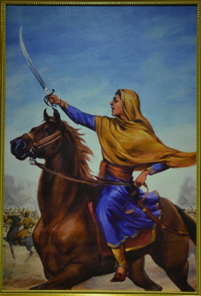 Sada Kaur was the wife of Gurbaksh Singh Kanhaiya, the heir of Jai Singh Kanheya, the leader of the Kanhaiya Misl and the brave mother-in-law of Maharaja Ranjit Singh.